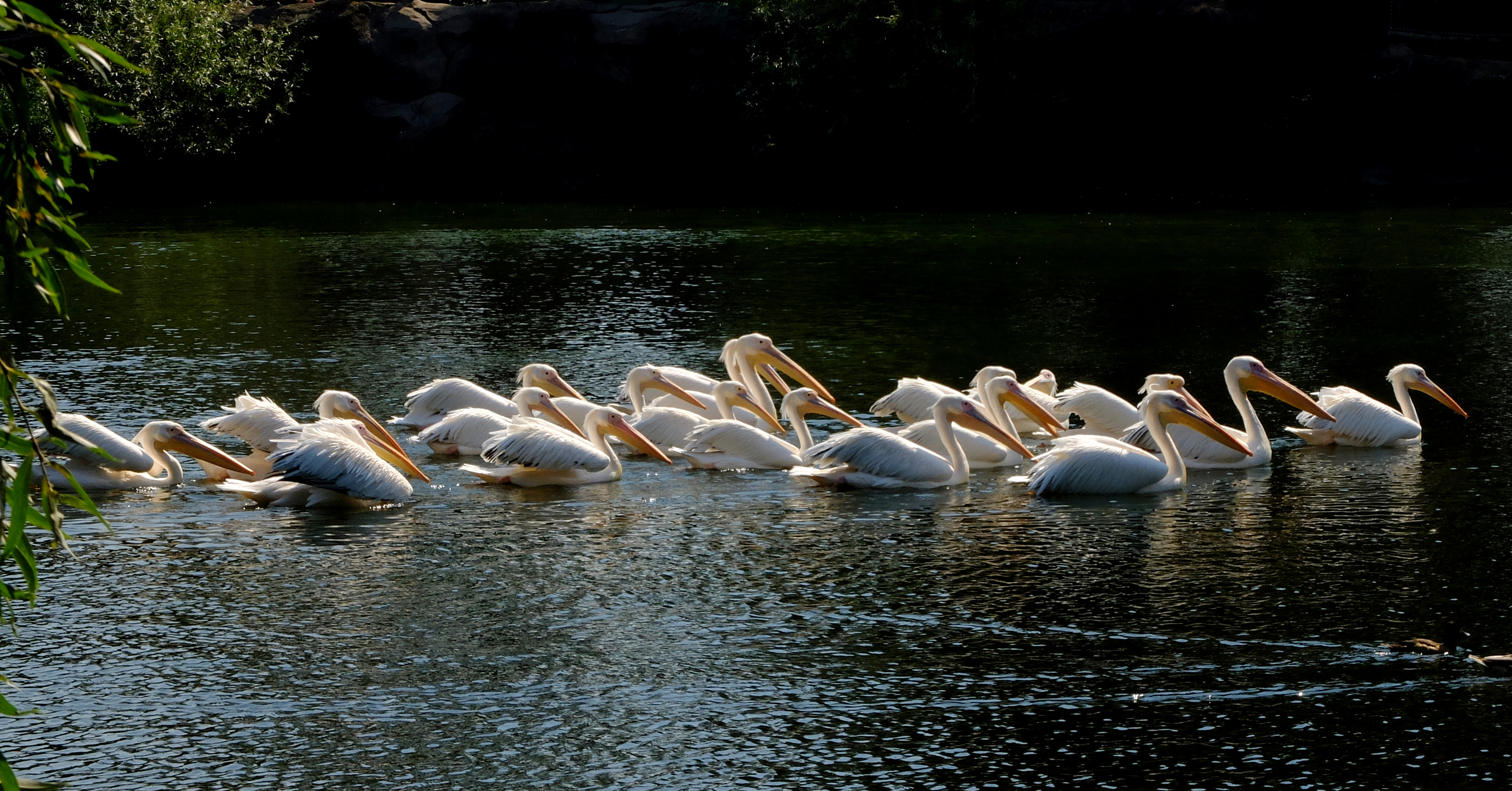 Dutch bird park Avifauna, Alphen aan den Rijn.